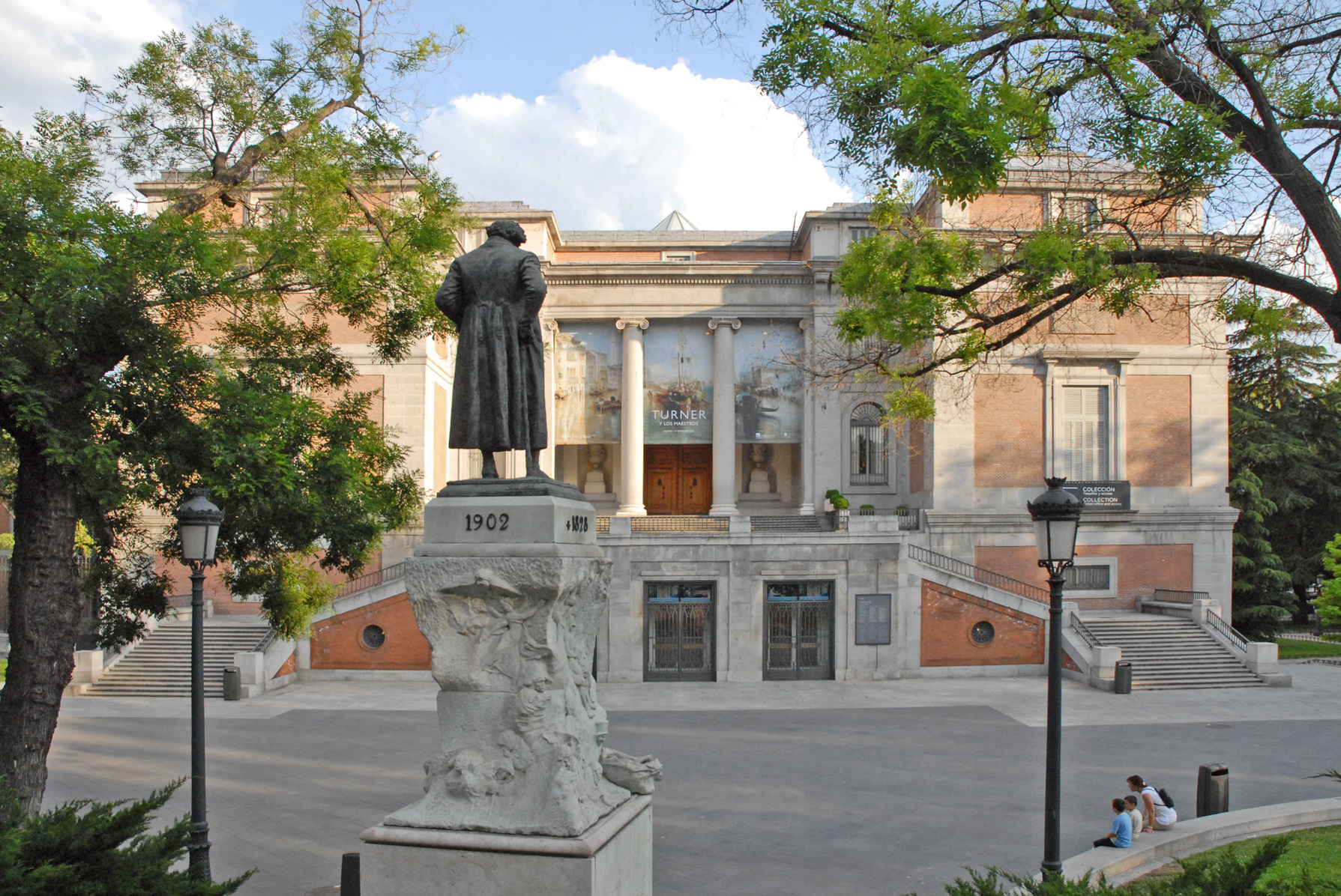 North façade of Prado Museum (Madrid, Spain). Foreground: Monument to Goya by Benlliure.